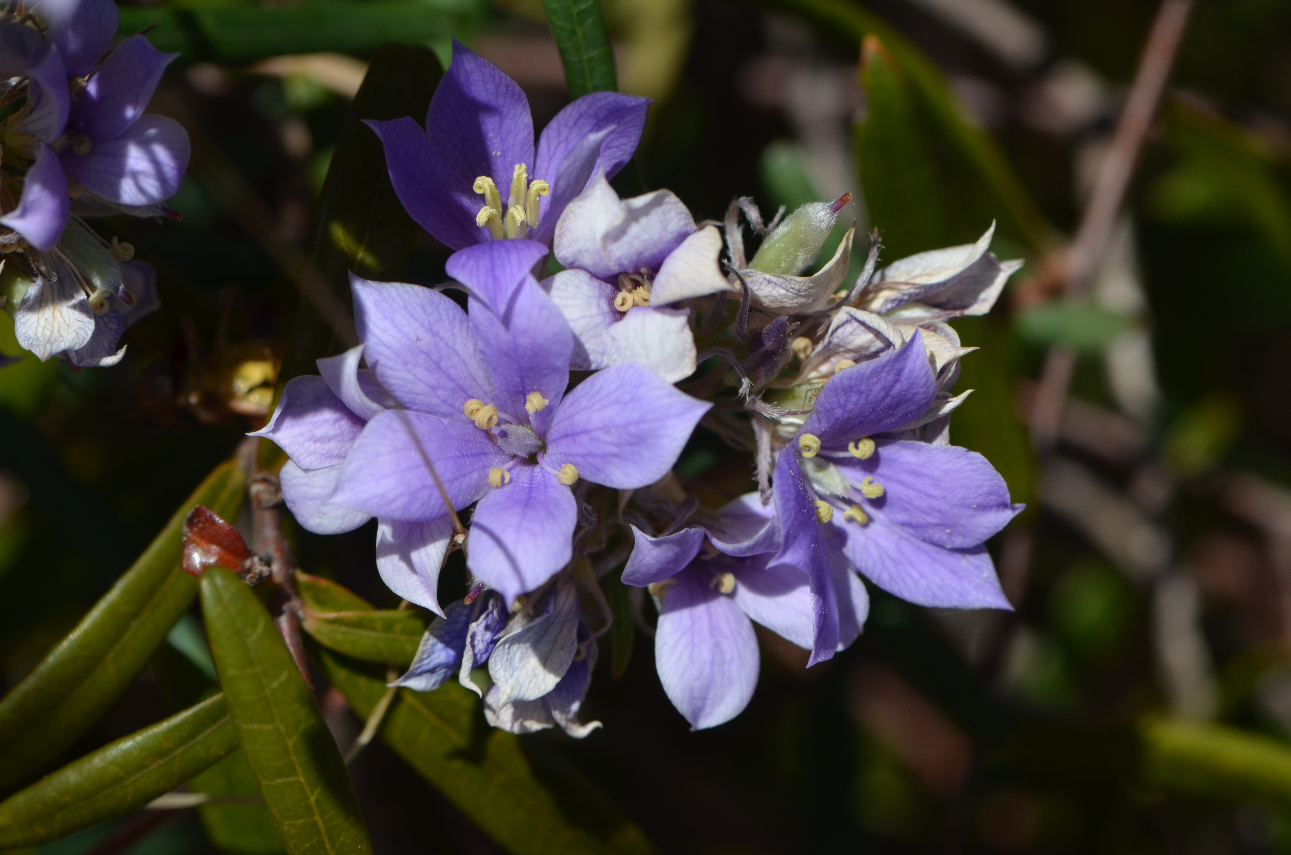 Billardiera fraseri, Kensington Bushland, Perth